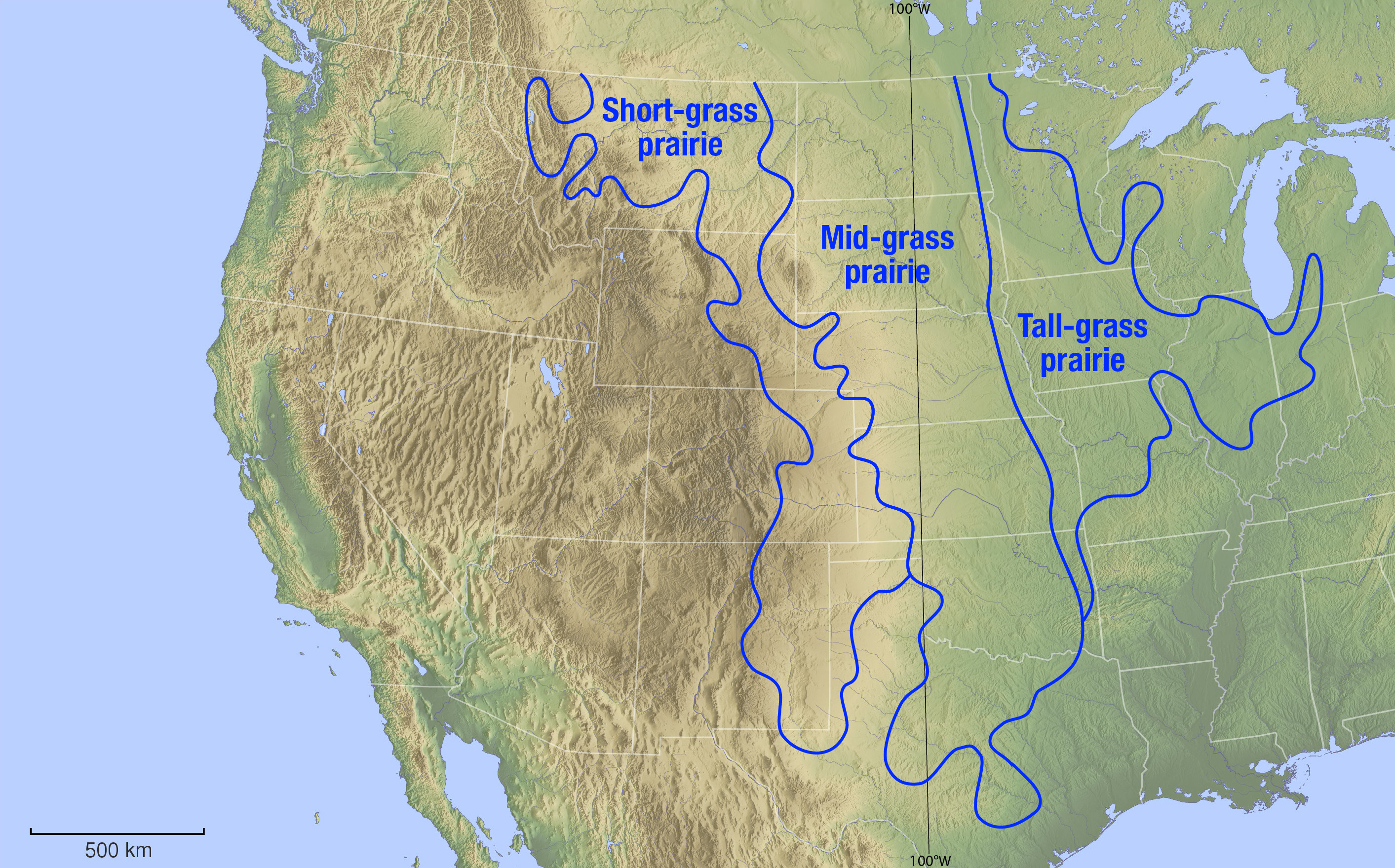 Biogeographical map showing the different temperate grassland ecoregions of the Great Plains and Tallgrass prairies regions of the United States. Data from a display at Brigham Young University's Bean museum.